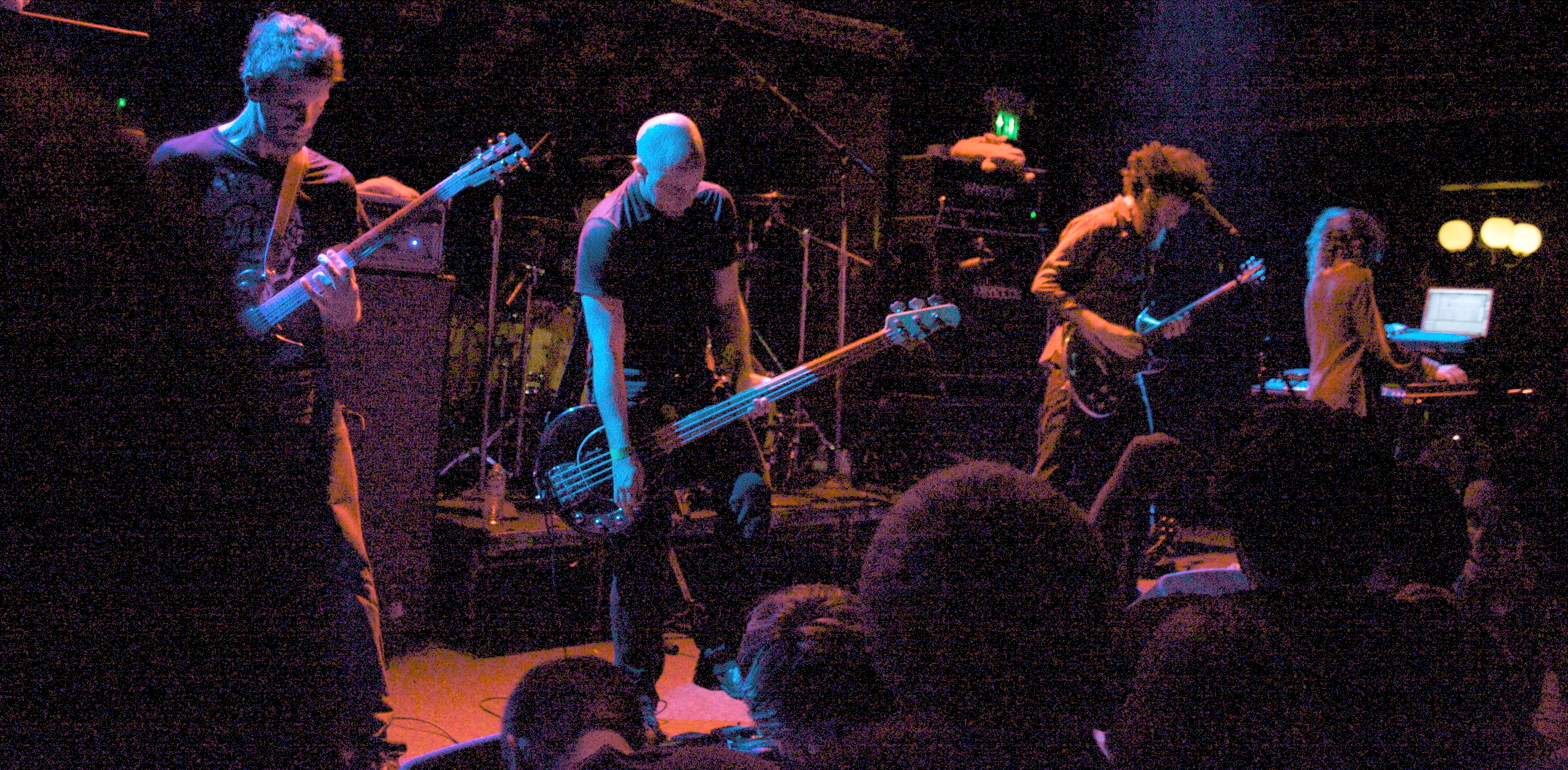 Isis performing live at the Great American Music Hall in San Francisco, USA, on June 29, 2009.